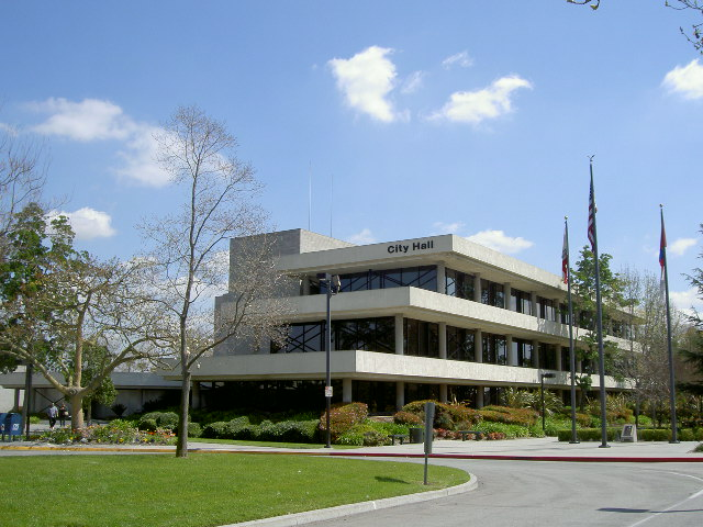 Personal Photo of Downey's City Hall built in 1984 and located in the Downey Civic Center on Brookshire Avenue and 2nd street. Released to the public domain.